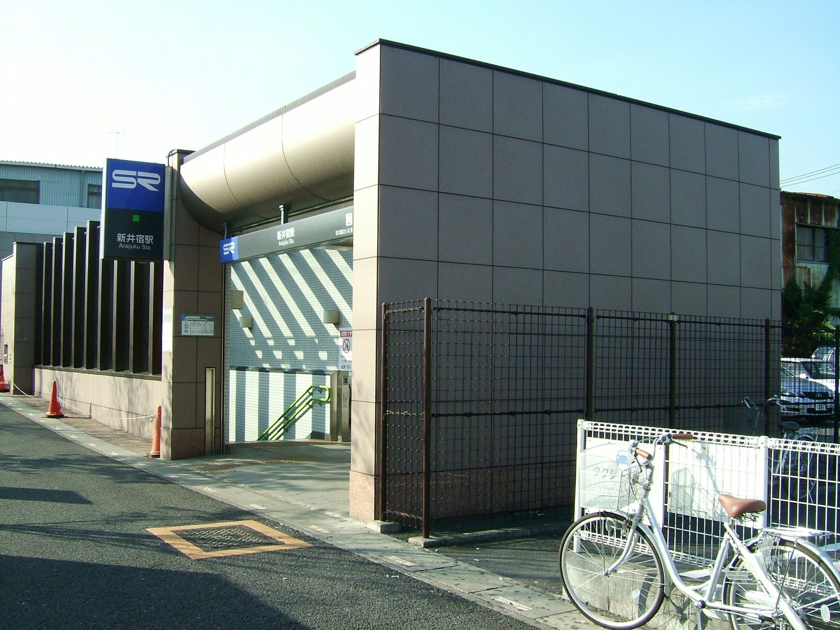 No. 2 exit at Araijuku Station on the Saitama Rapid Railway Line